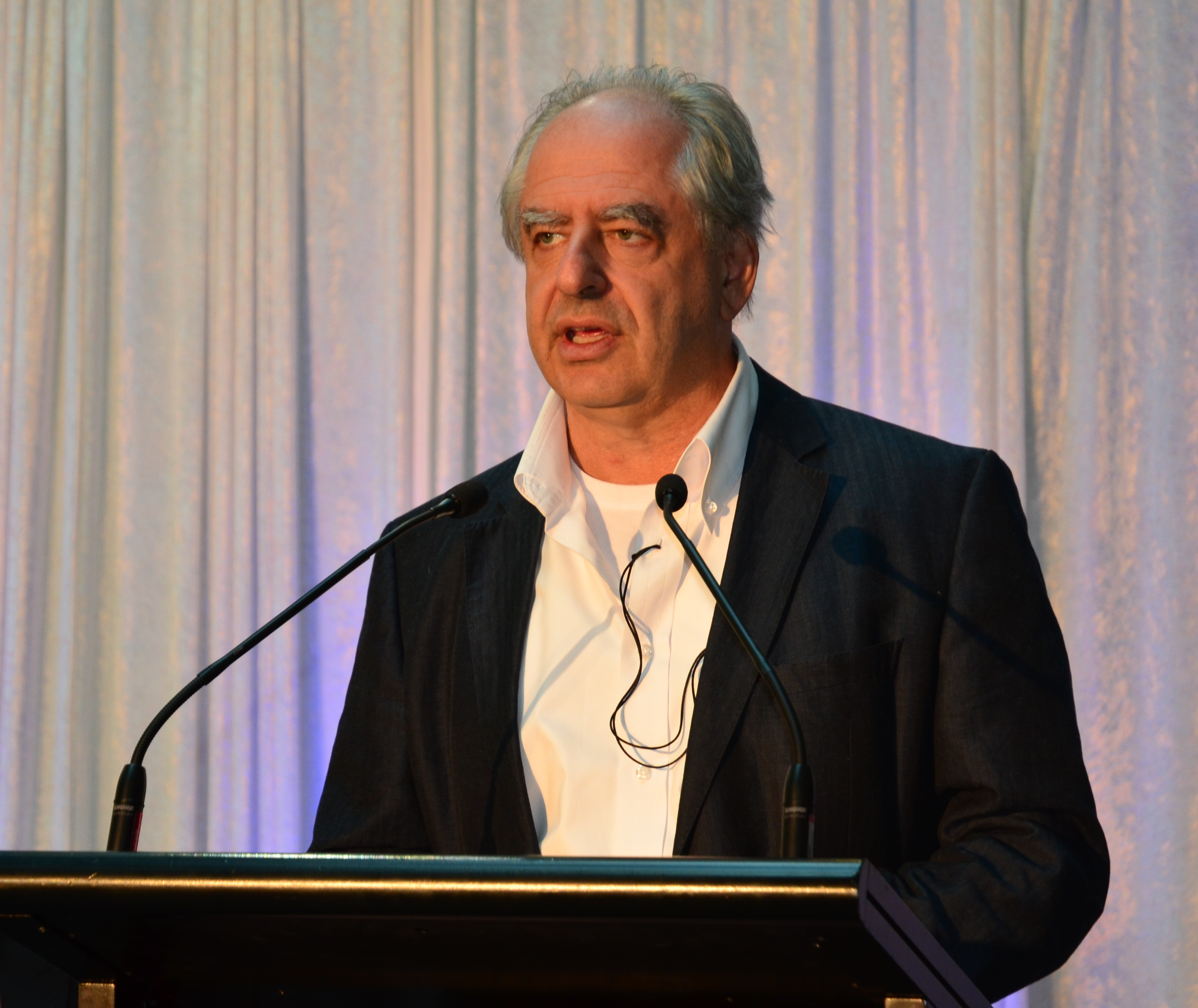 William Kentridge at exhibition opening in Melbourne on 7 March 2012 at ACMI, Melbourne, Australia